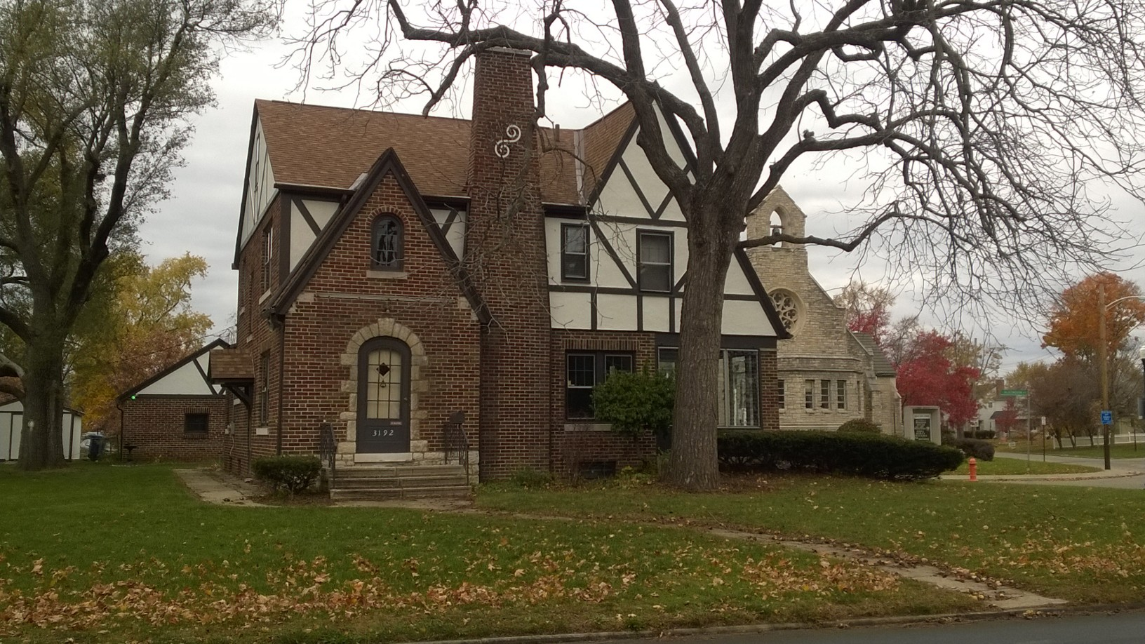 House in Westgate Neighborhood, Columbus, OH